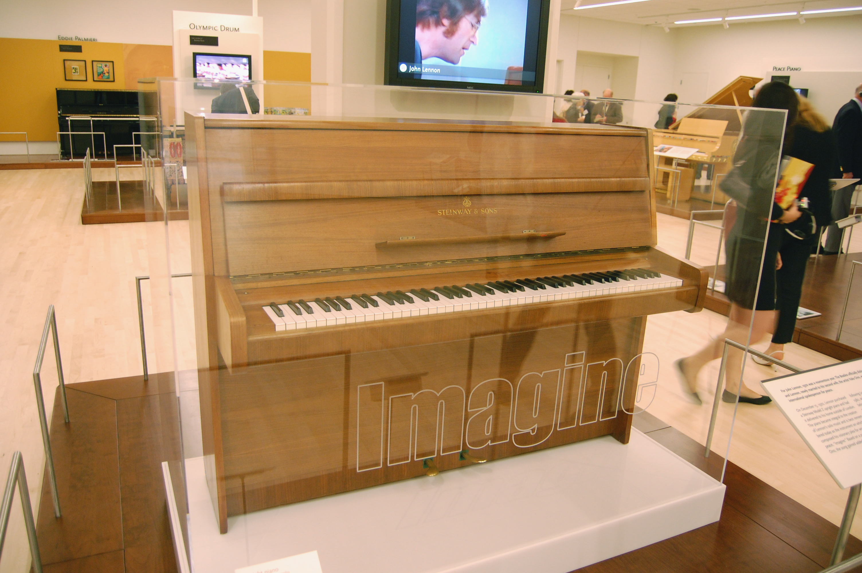 One of John Lennon's Steinway pianos, MIM PHX